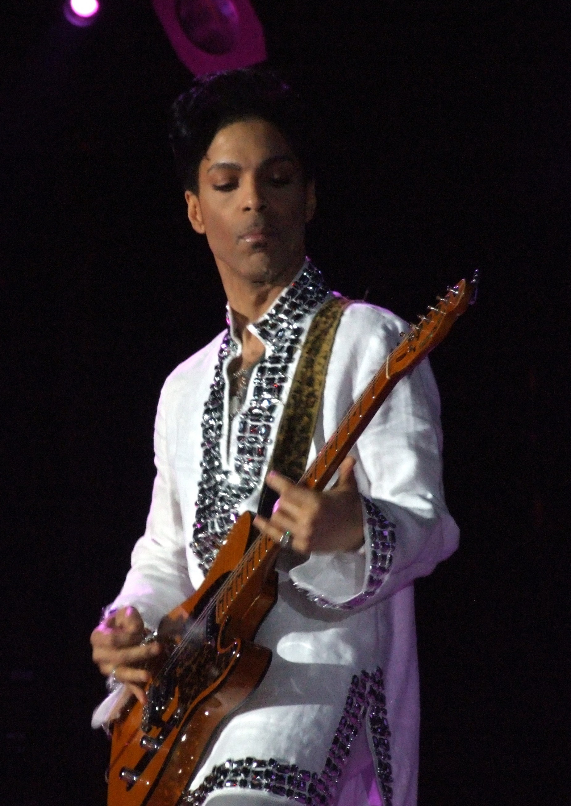 Prince playing at Coachella 2008.